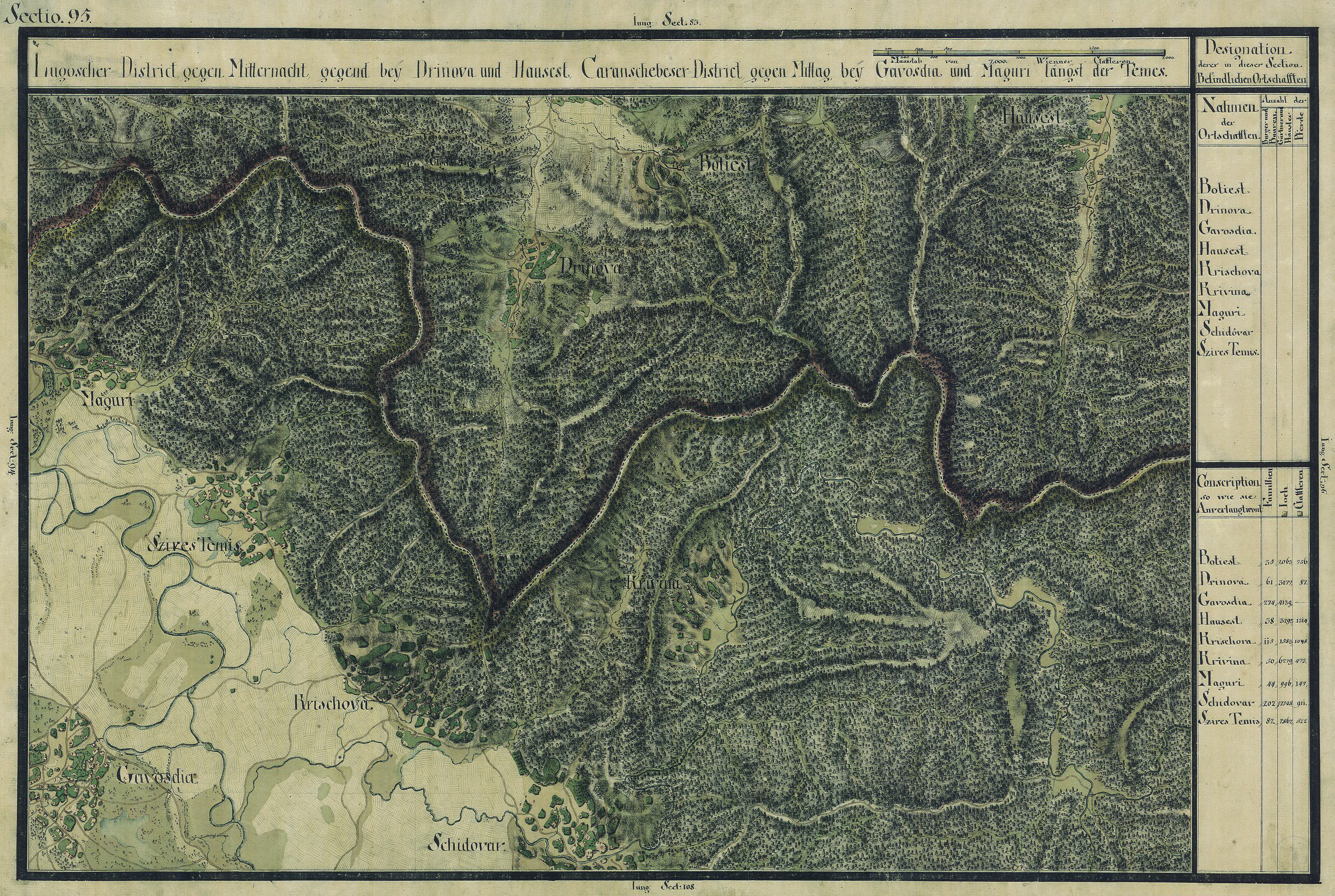 The Banat region in the cadastral maps: Josephinische Landesaufnahme, 1769-72. Josephinische Landaufnahme pg095